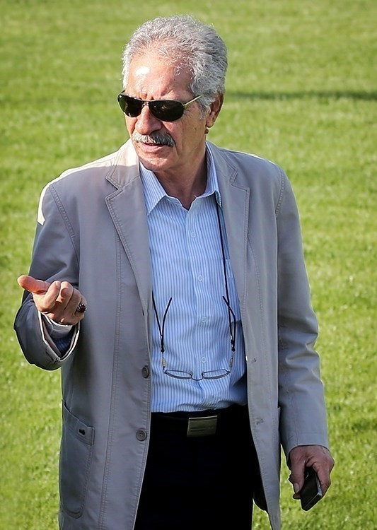 Mansour Pourheidari